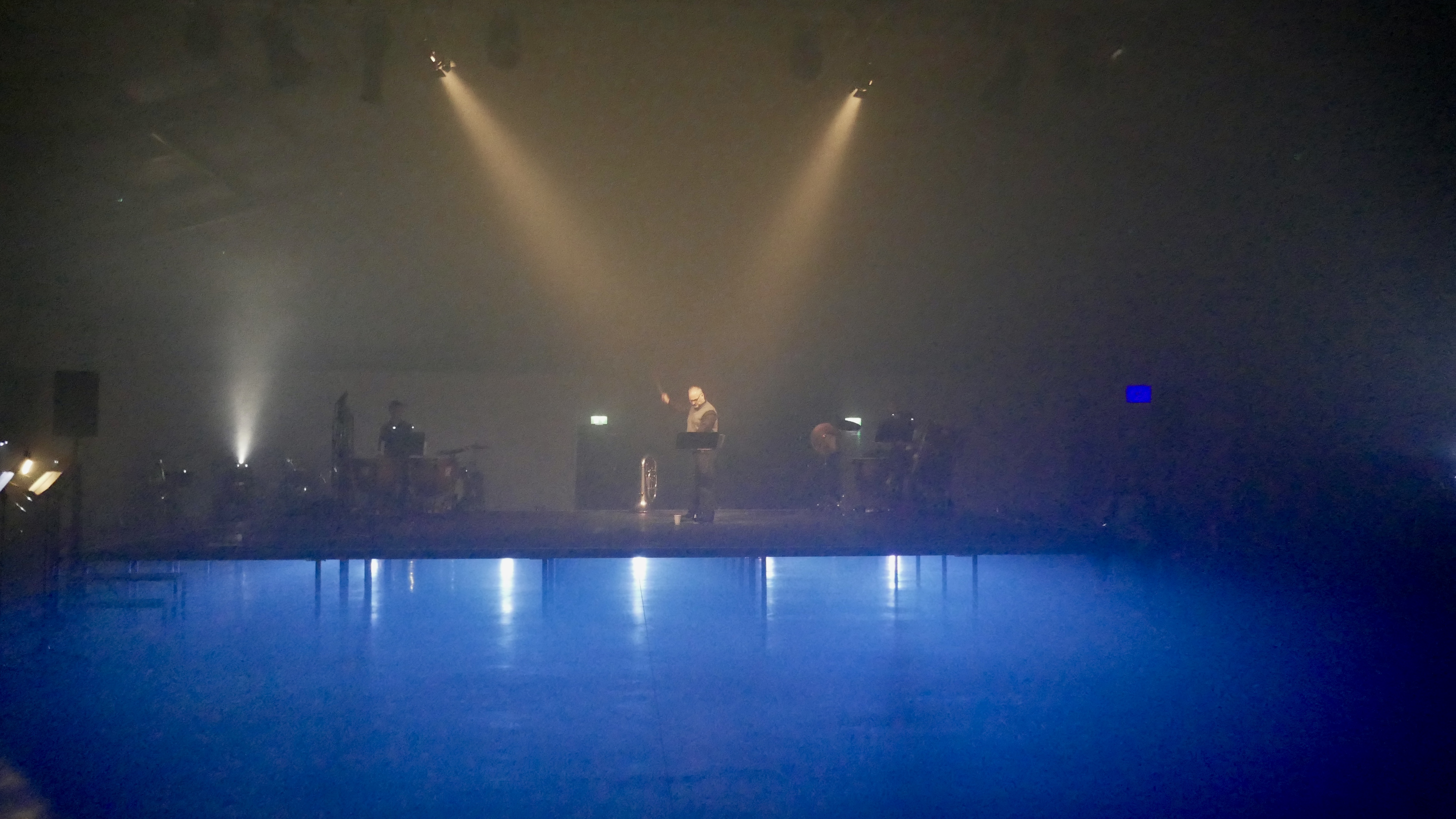 Rehearsal of De Profundis featured The Wallace Collection and musicians of The Tullis Russell Mills Band at The Bowhouse for East Neuk Festival 2017